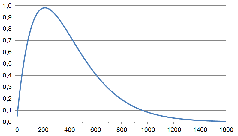 Contrast Sensitivity Function (CSF) against spatial frequency in cycles per image height